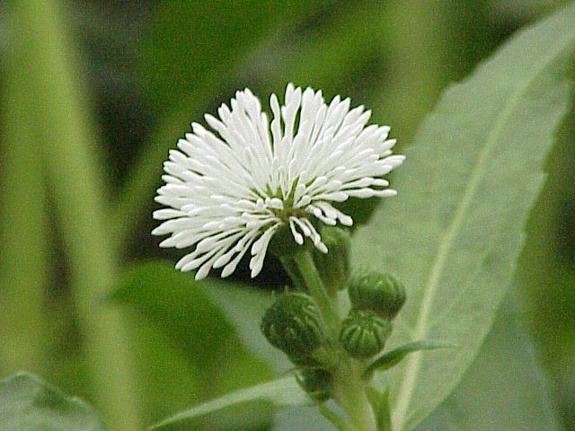 Species: Gymnocoronis spilanthoides Family: Asteraceae Image No. 1